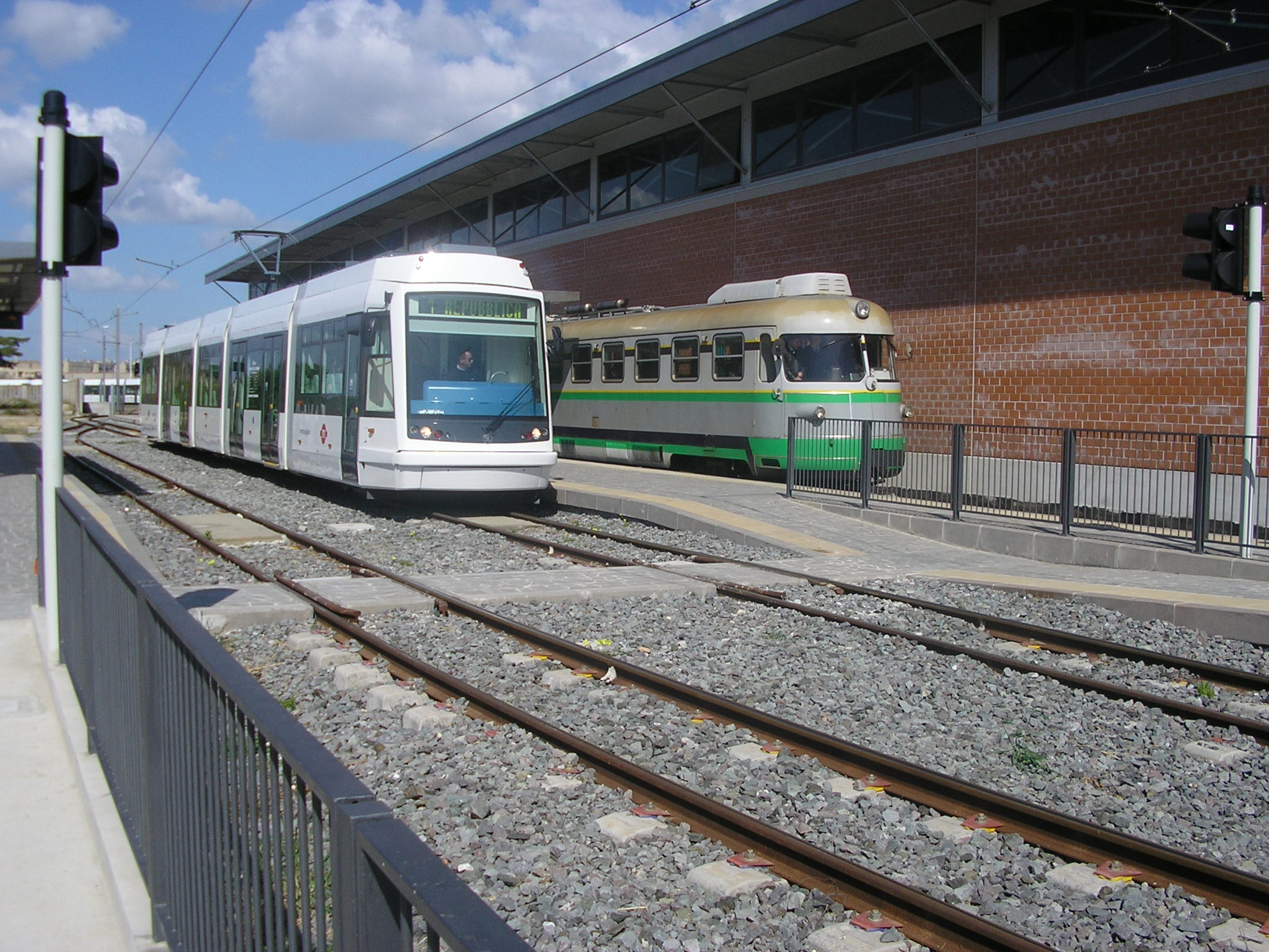 Tram Skoda 06T of the light railway of Cagliari (Sardinia, Italy) and diesel multiple car ADe of Ferrovie della Sardegna waiting in the halt of Monserrato Gottardo, terminus of the line 1 of the light rail and of the railway for Isili